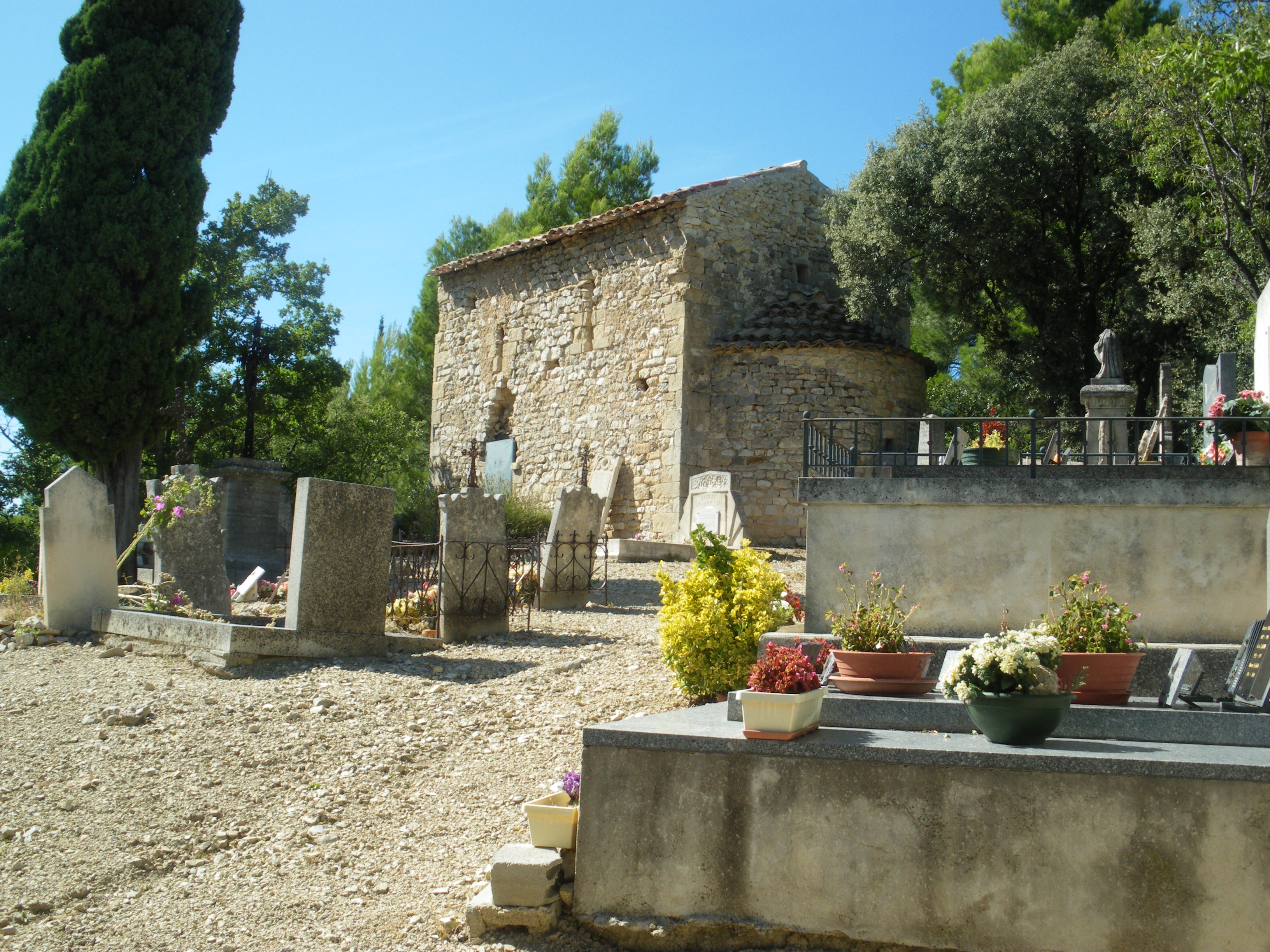 Chapel in La Roque Alric, Vaucluse, France